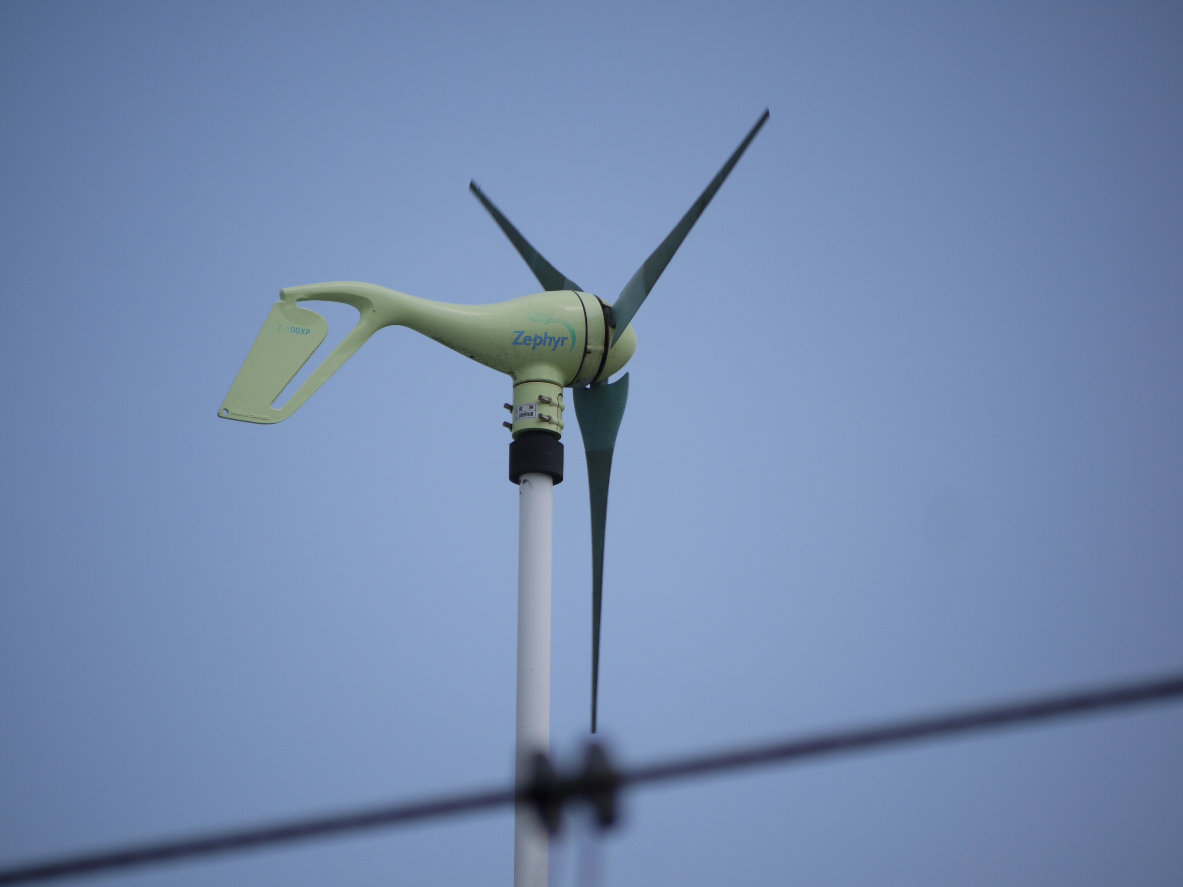 Windmill on the roof of Haruhino station